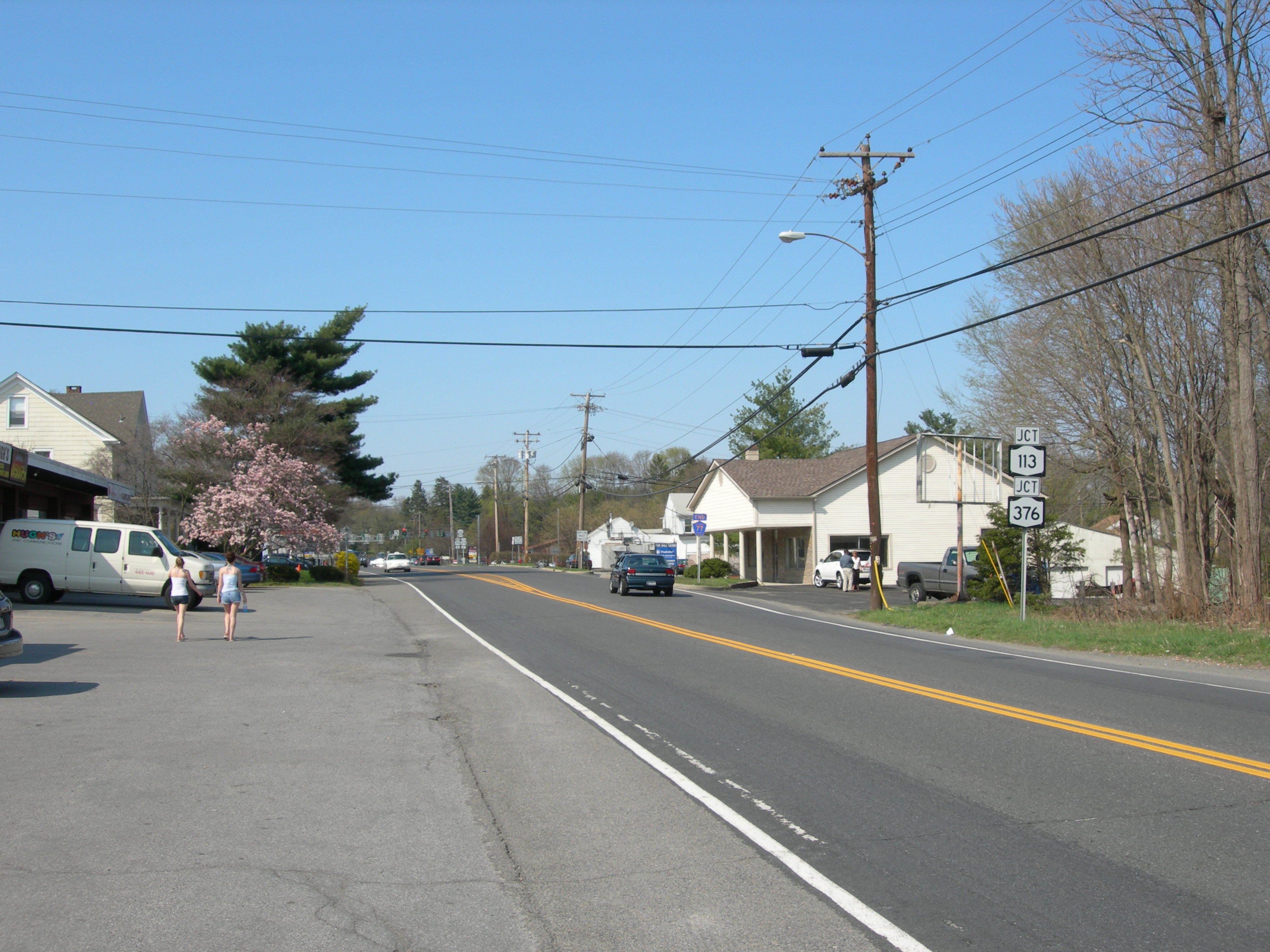 Red Oaks Mill: Vassar Road, Town of Poughkeepsie, New York